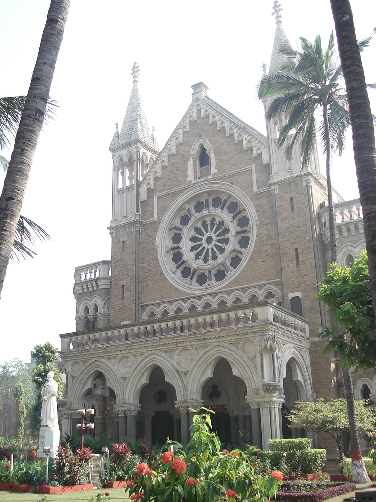 the newly restored Cowasji Jehangir Hall, the venue for the University of Mumbai's Convocation ceremony, in January 2007